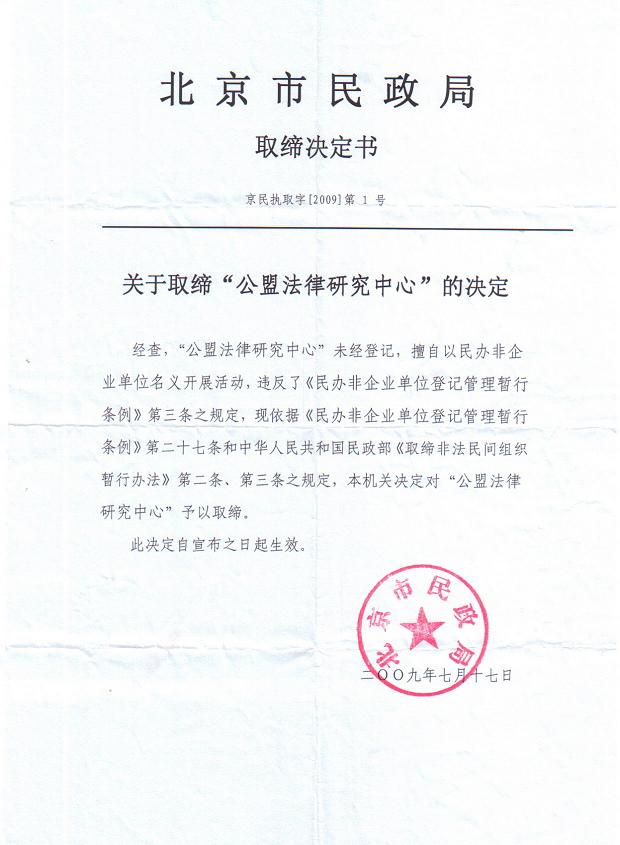 legel notice to ban gongmeng from Civil Administration of P.R.China (PD-CNGov)